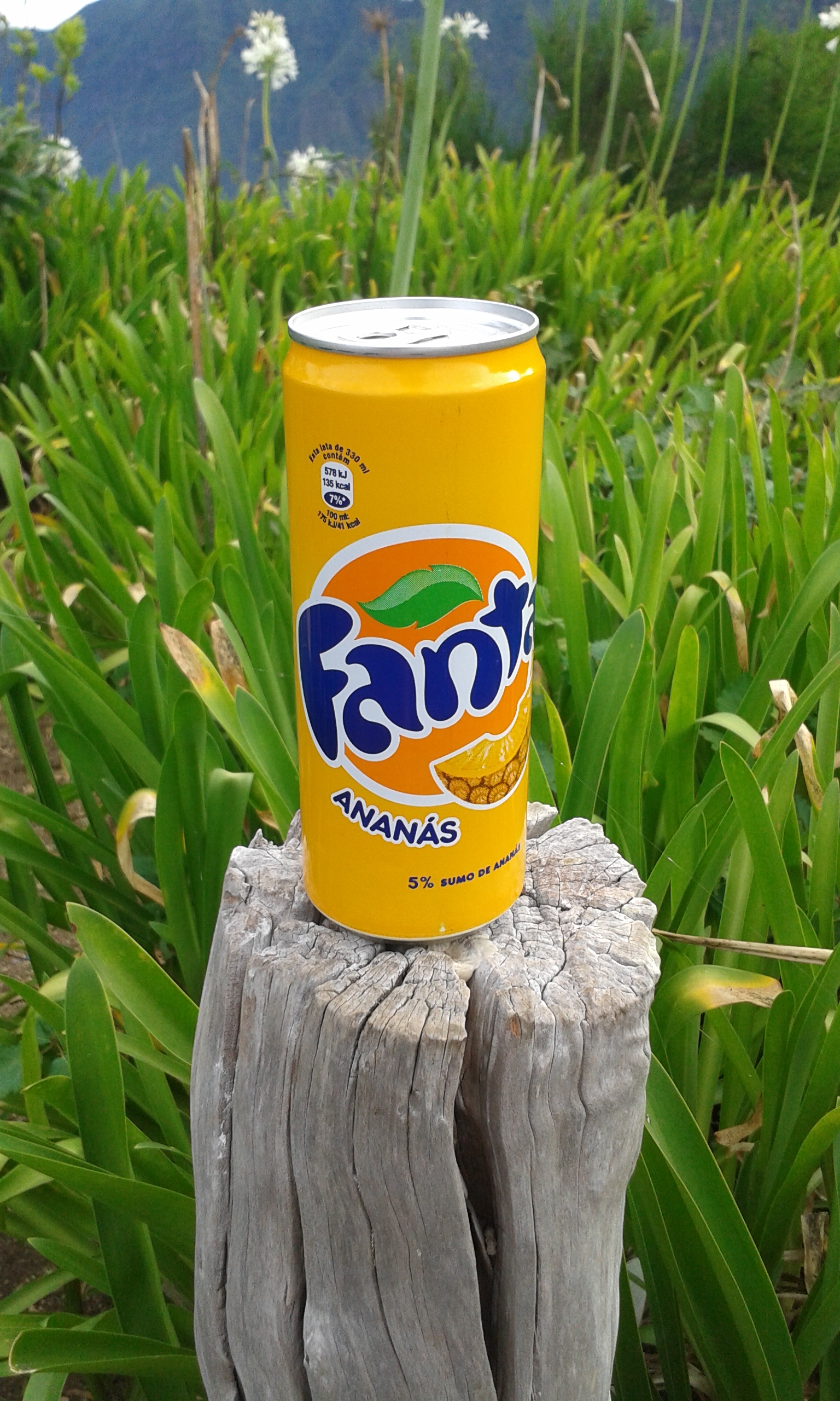 Fanta with pineapple juice I bought in Madeira.